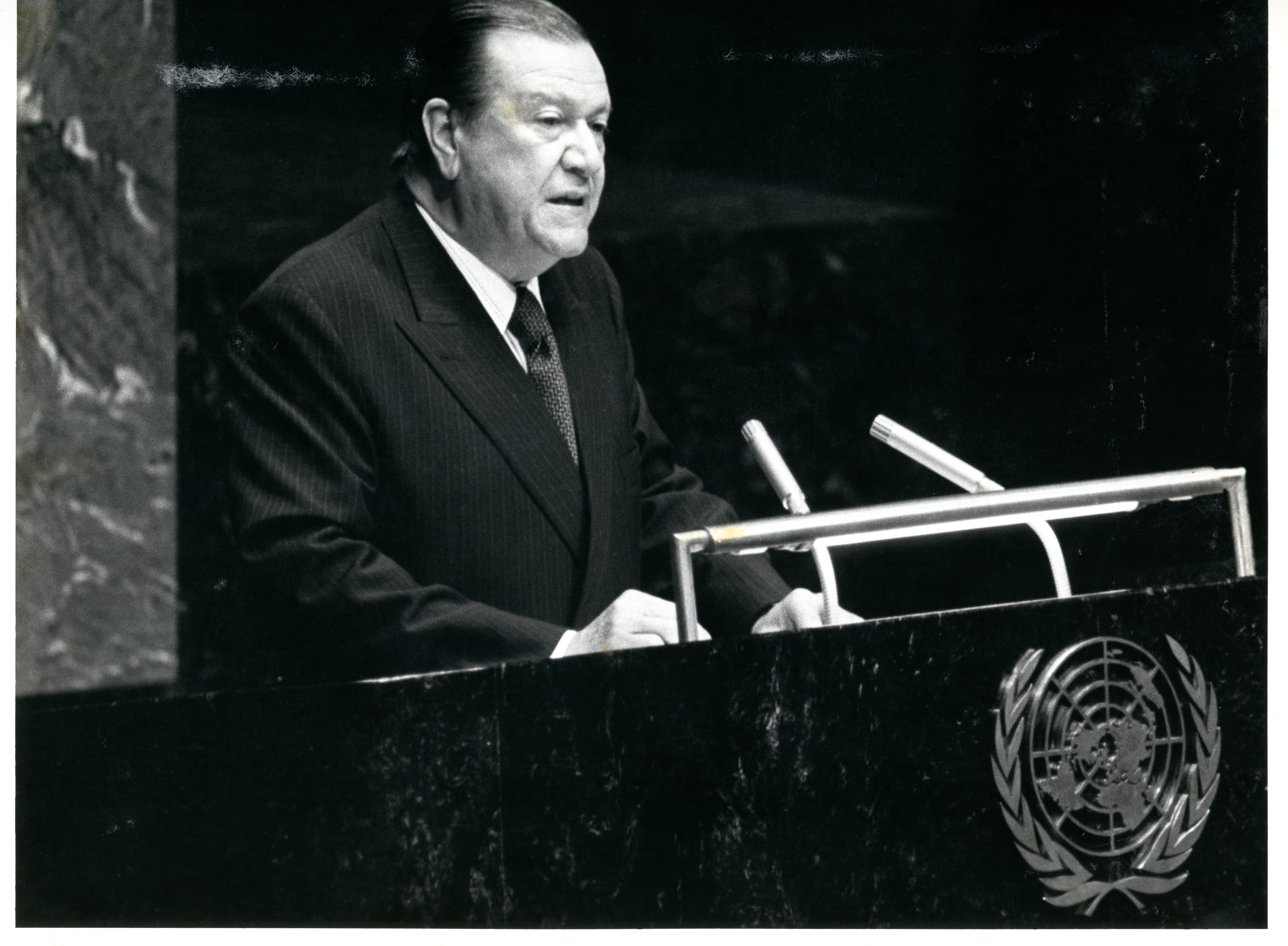 Speech as president of the Inter-Parliamentary Union before the United Nations General Assembly, New York, NY.